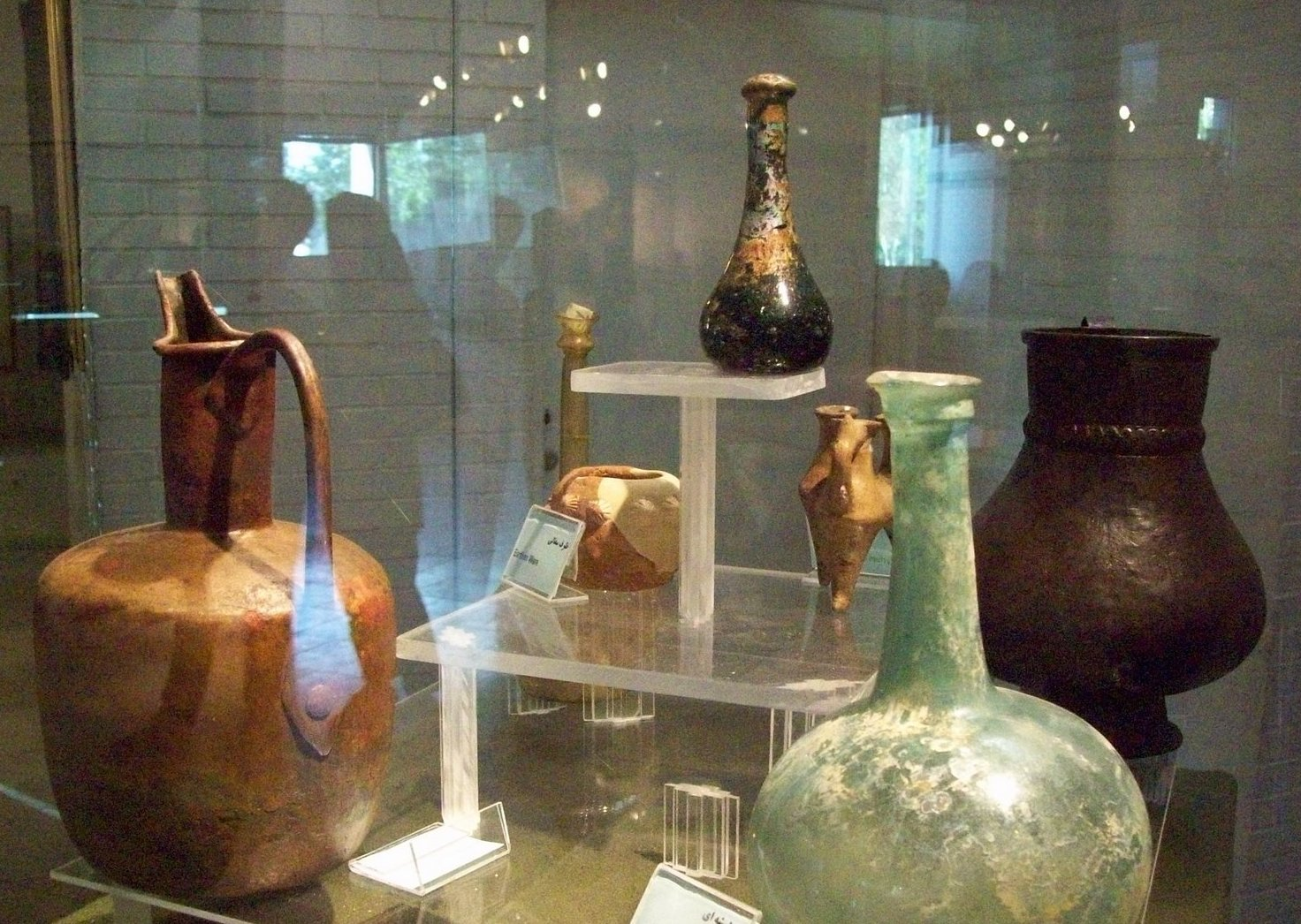 Tous Museum